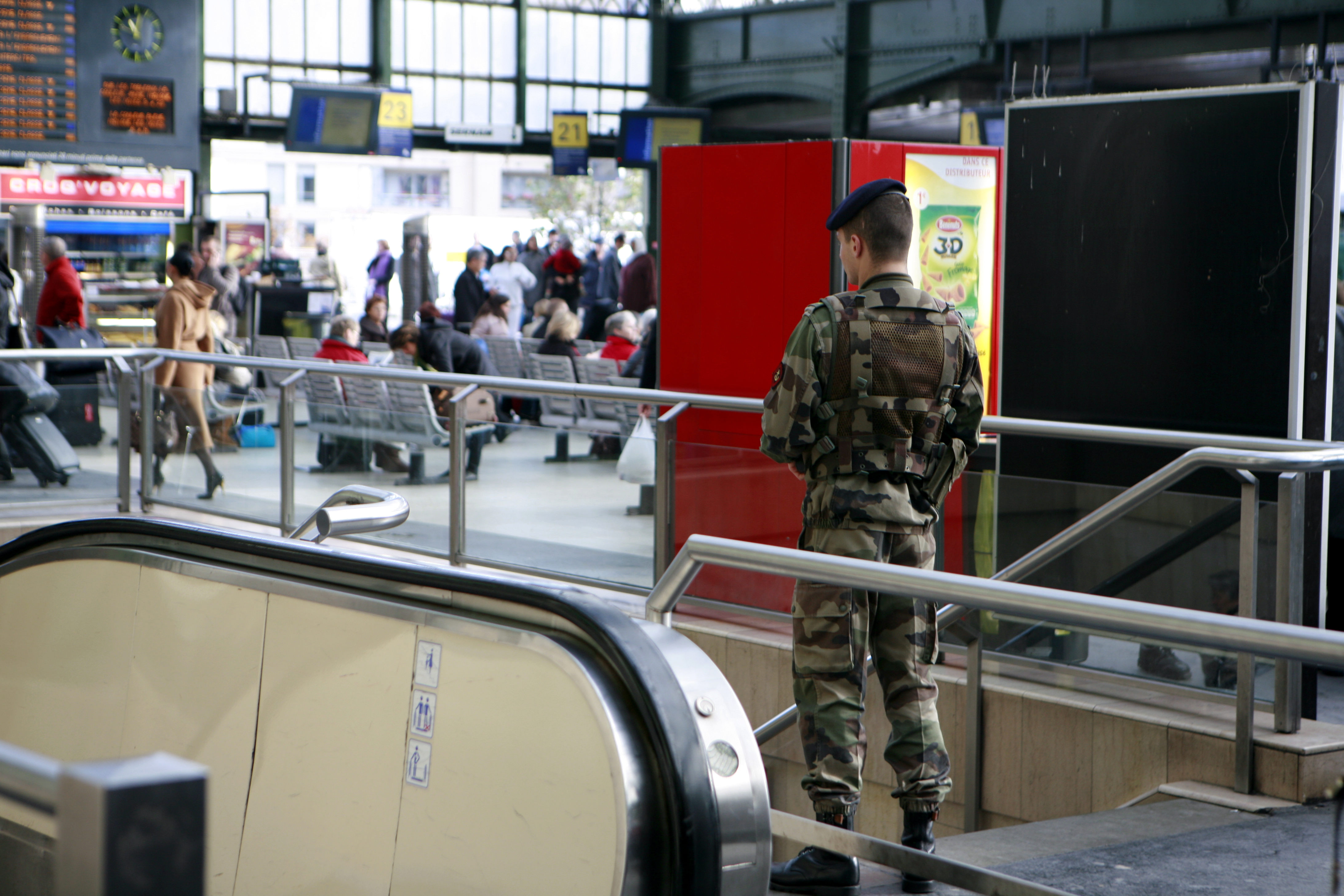 Soldiers on Vigipirate duty at Gare de Lyon